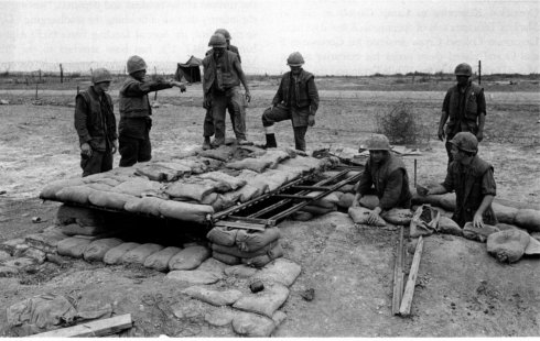 A Marine platoon from the 1st Battalion, 4th Marines is seen at work building a bunker emplacement at C-4 Con Thien with sandbags for overhead cover in January